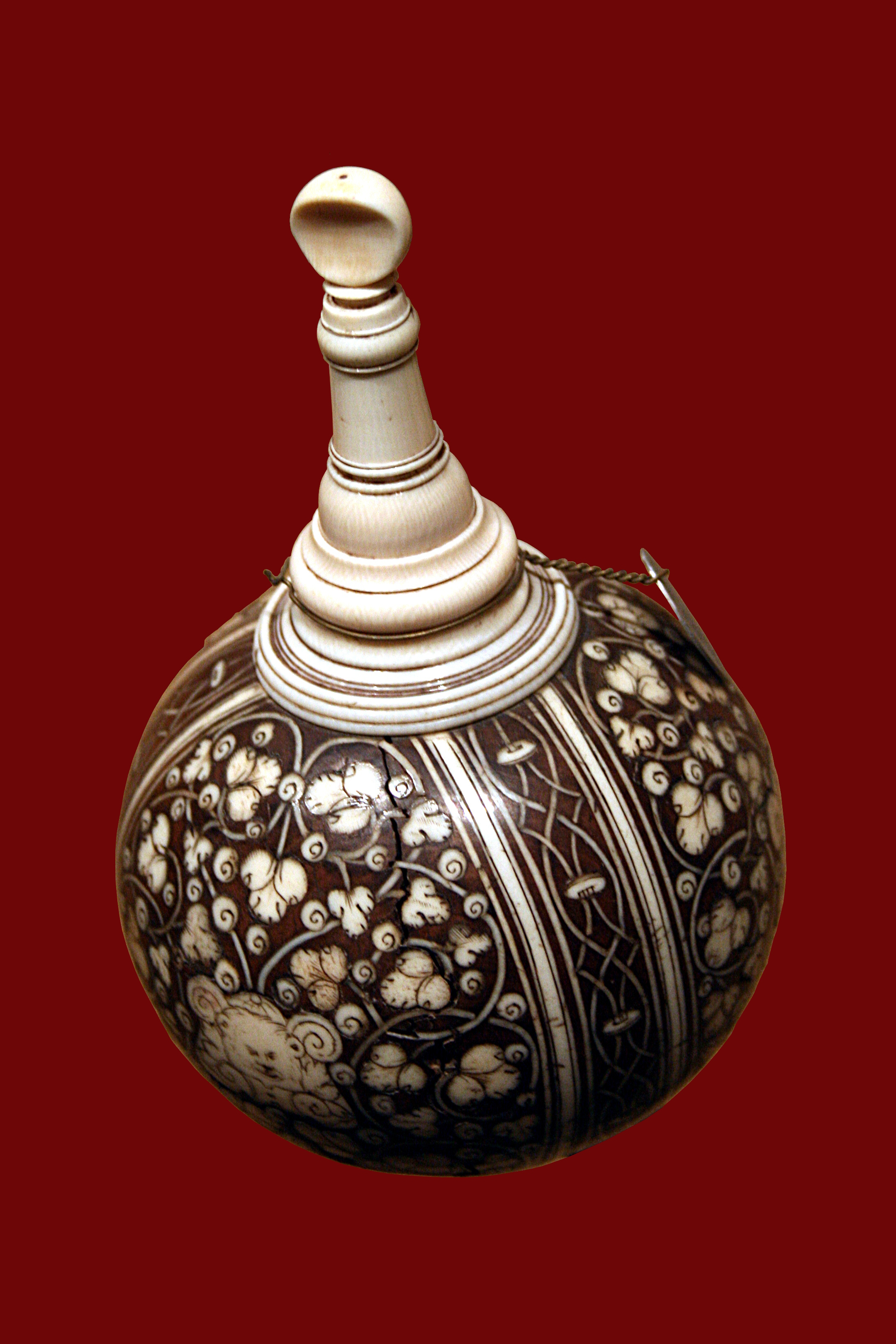 Ivory and wood priming flask inlaid with scrolls, plants and a zoomorphic ivory motif, made around 1600 in Germany, kept under inventory number M 2105 in the Musée de l'Armée in Paris.